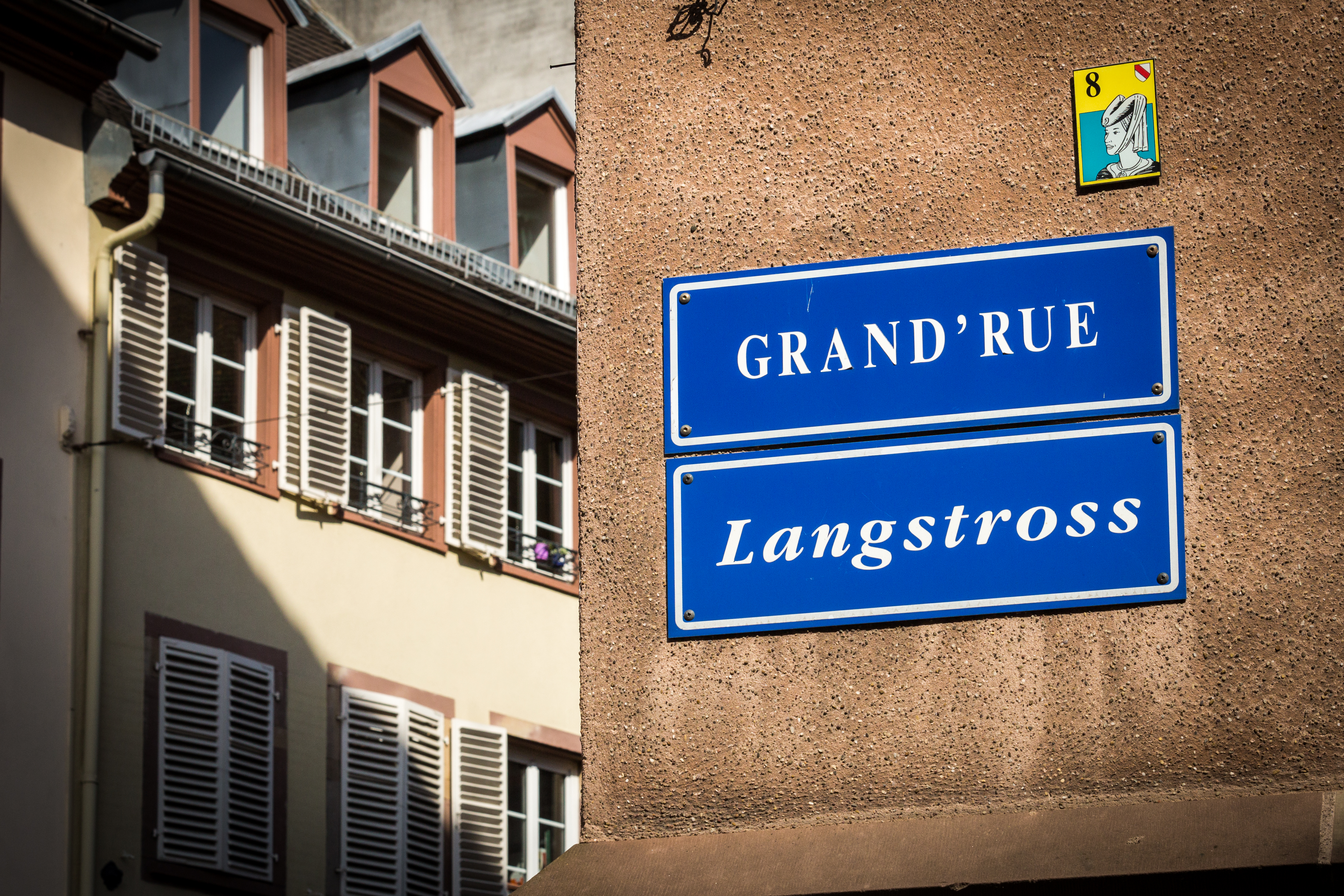 Strasbourg Grand’Rue